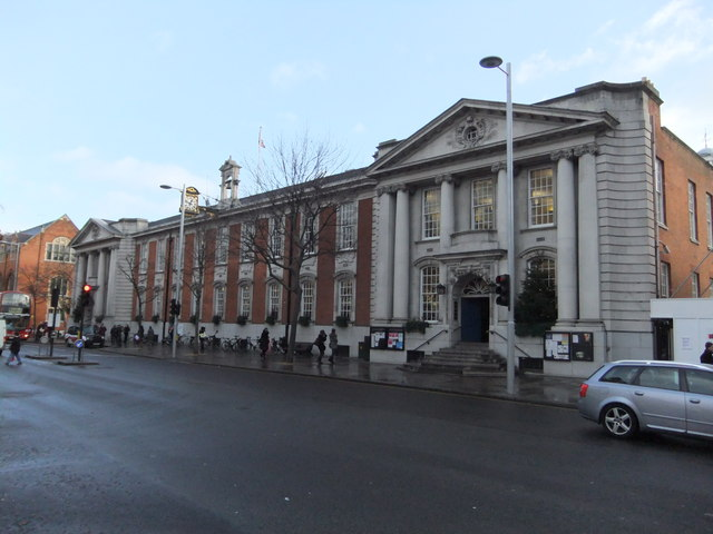 Chelsea Library and Town Hall, King's Road SW3